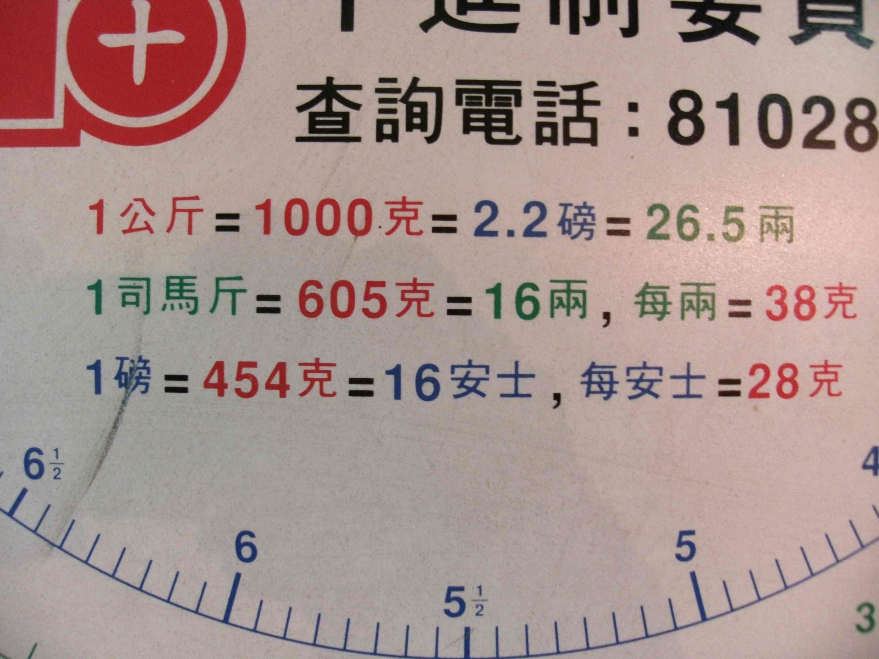 A photo taken in Hong Kong showing some common used weight standards